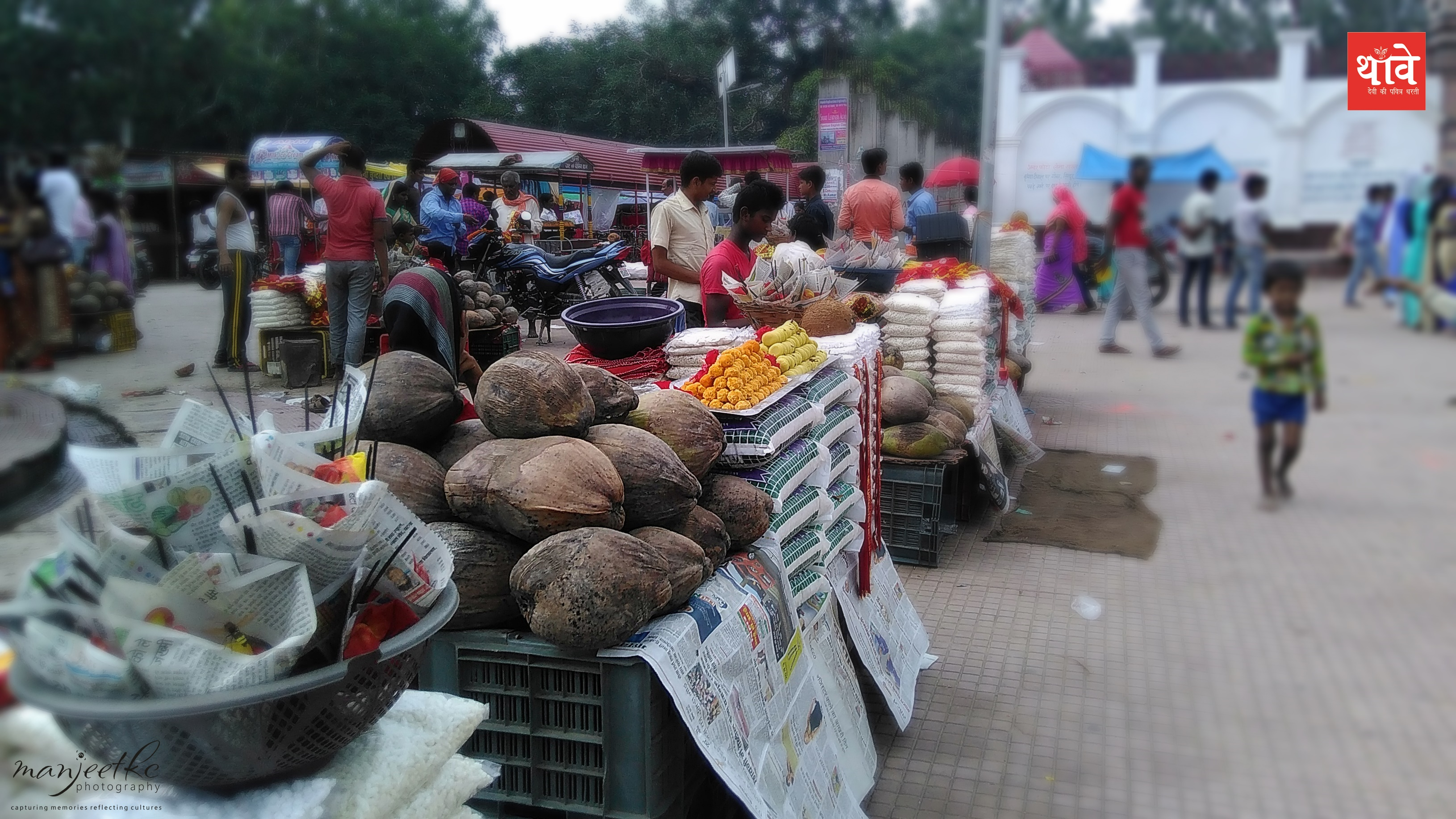 Thawe mandir view